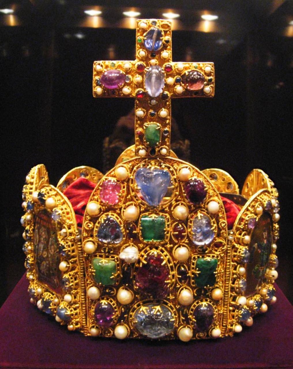 The Imperial Crown Western Germany 2nd half of the 10th century The cross is an addition from the early 11th century; the arch dates from the reign of Emperor Conrad II (ruled 1024-1039); the red velvet cap is from the 18th century. Gold, cloisonné enamel, precious stones, pearls Brow plate: H 14.9 cm, W 11.2 cm; cross: H 9.9 cm SK Inv. No. XIII 1